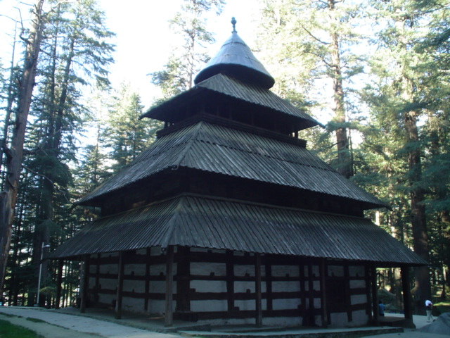 Hidamba Devi temple is dedicated to the wife of the 2nd Paandav Bheem who married her through "Gaandharva Vivaah" i.e. Love Marriage. Hidamba lived in the forests of Manaali.